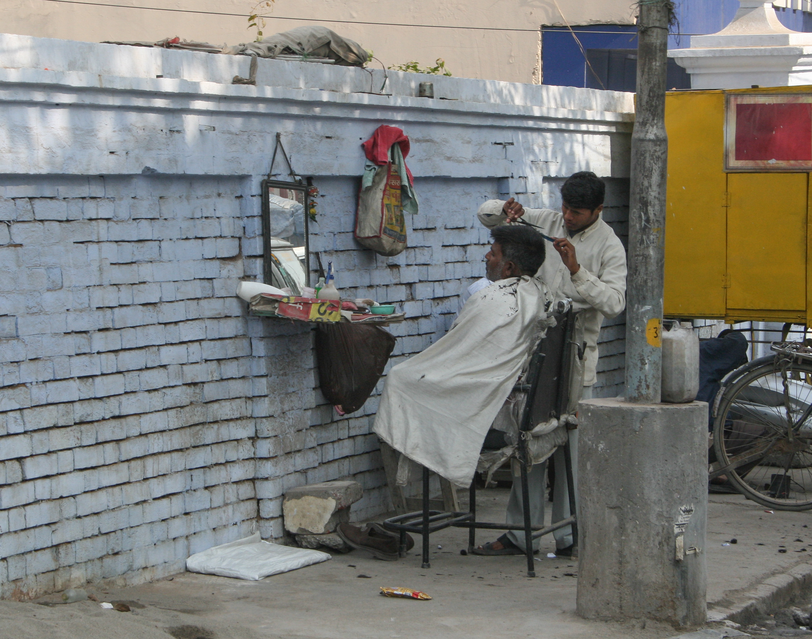 barber, Amritsar, India